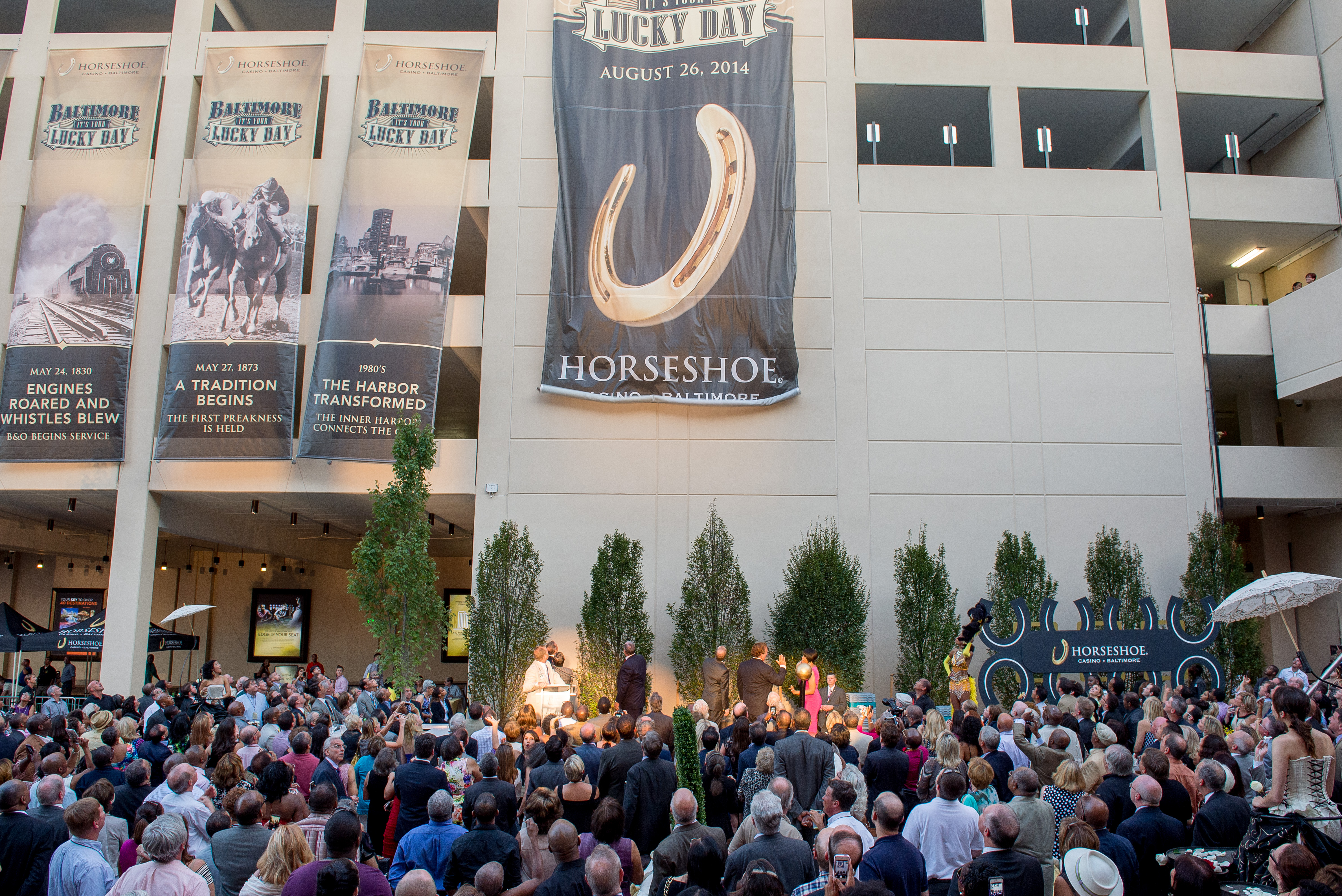 Horseshoe Casino Grand Opening. by Jay Baker at Baltimore, MD.